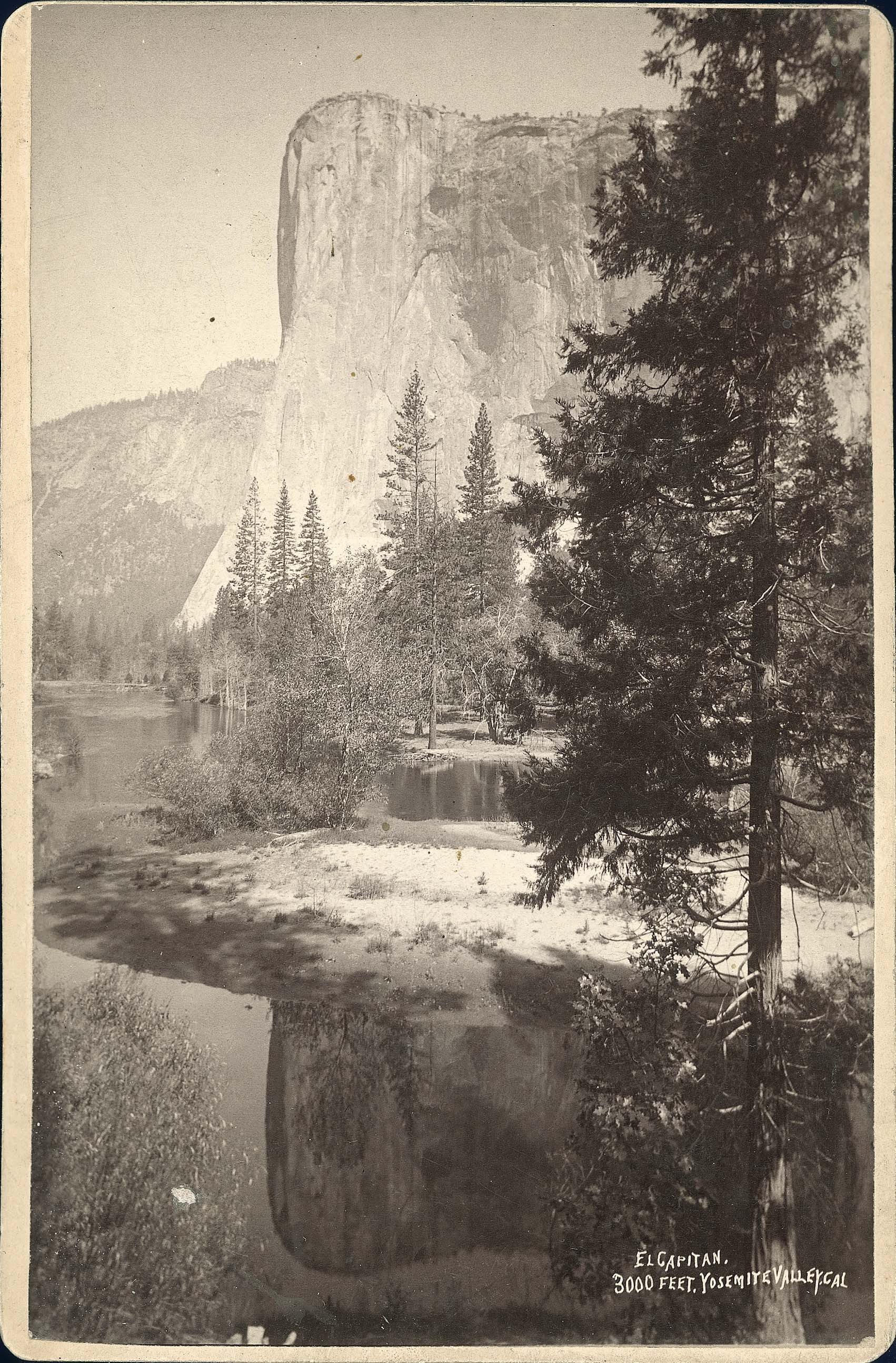 Water and trees below a tall, sheer cliff. Back label- Views of the Great West, C. R. Savage.Water and t